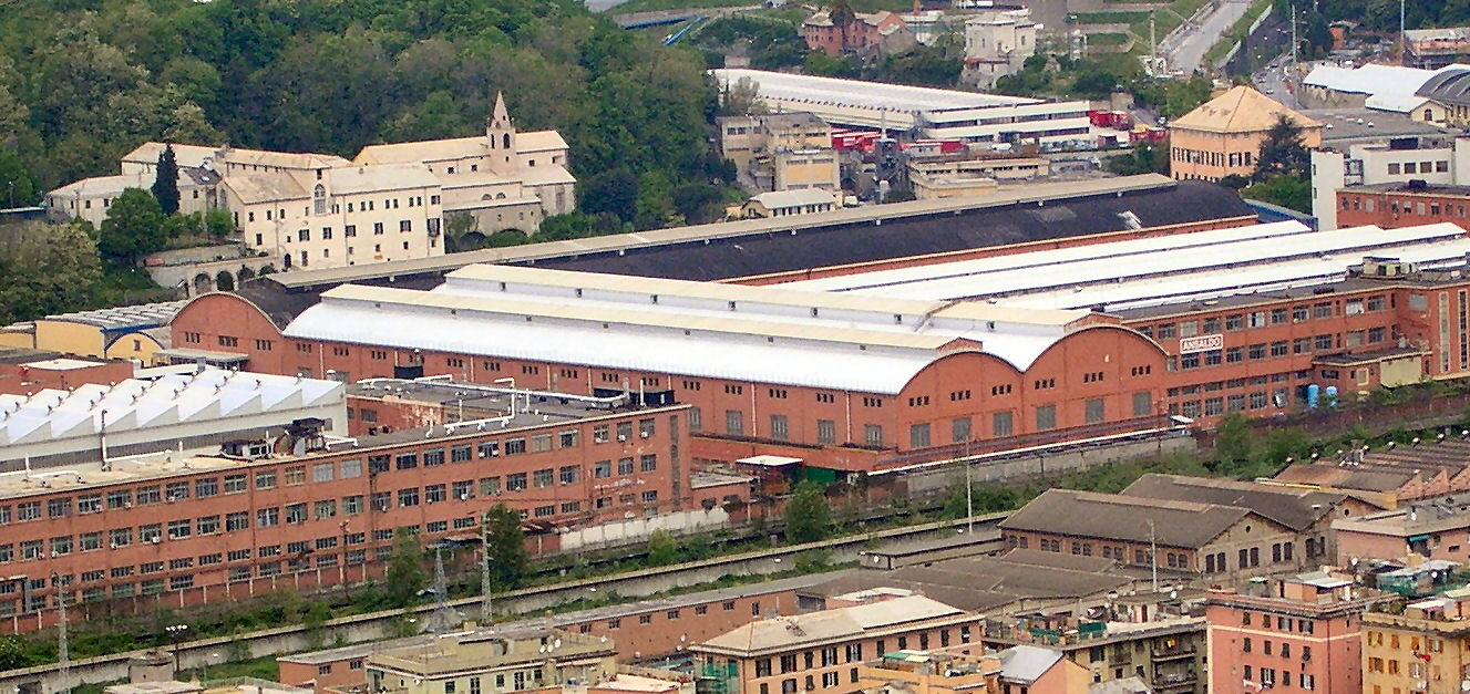 Genoa (Italy), quarter of Rivarolo, the factory Ansaldo